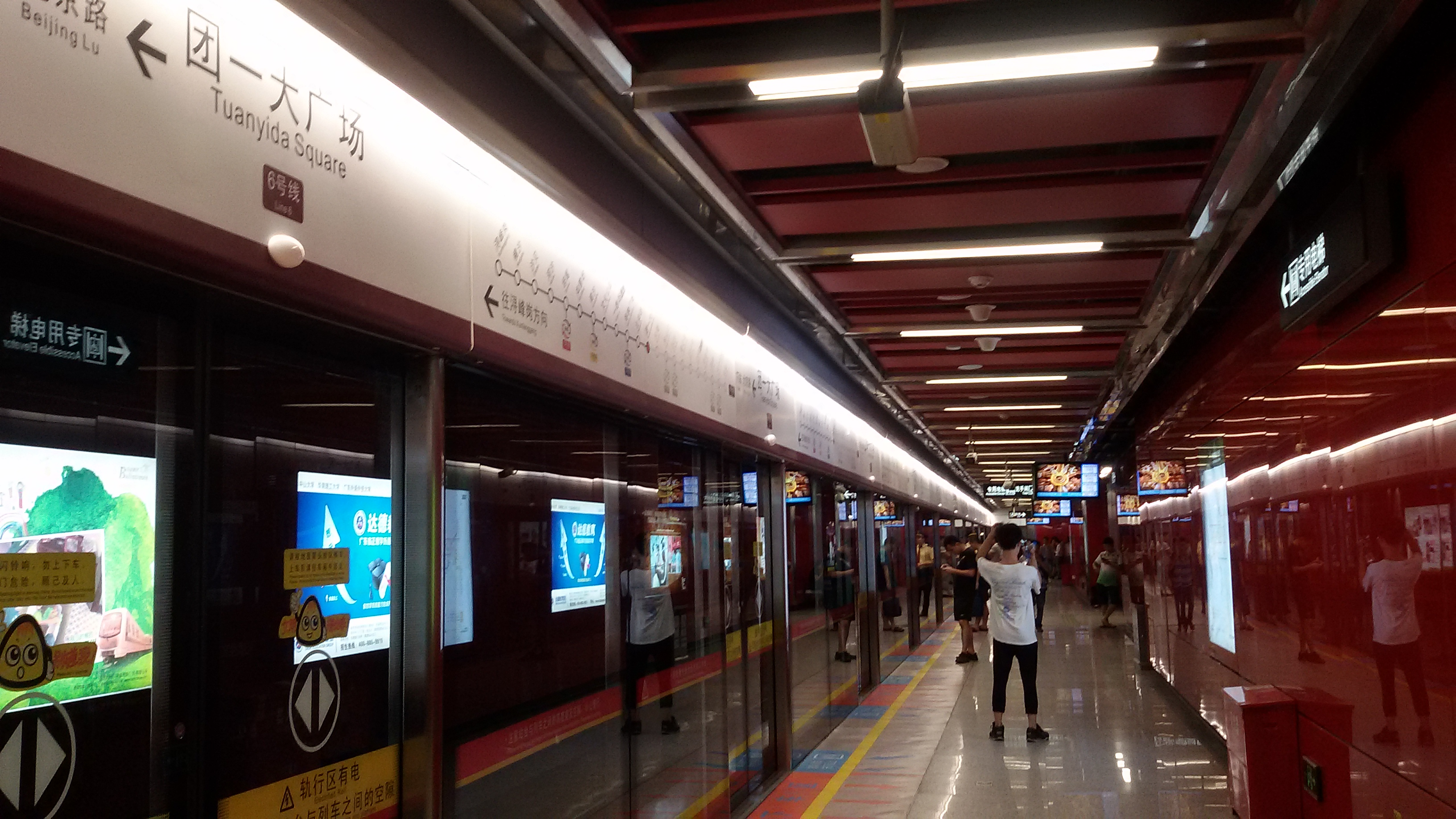 Platform at Tuanyida Square Station